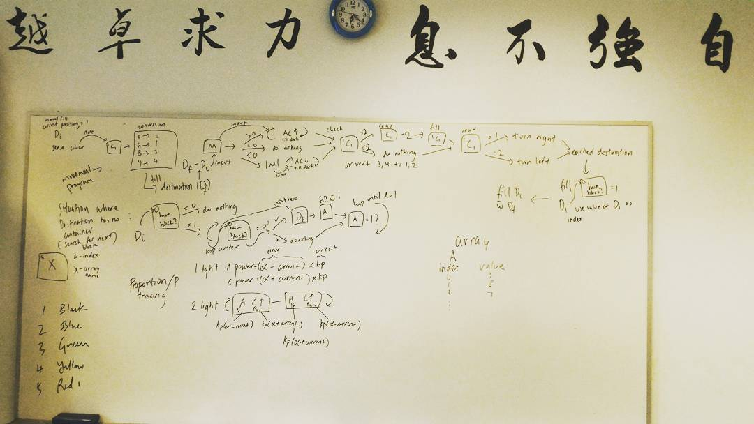 One of the Co-curricular Activity Rooms in Nanyang Junior College, occupied by the college's Robotics Club.